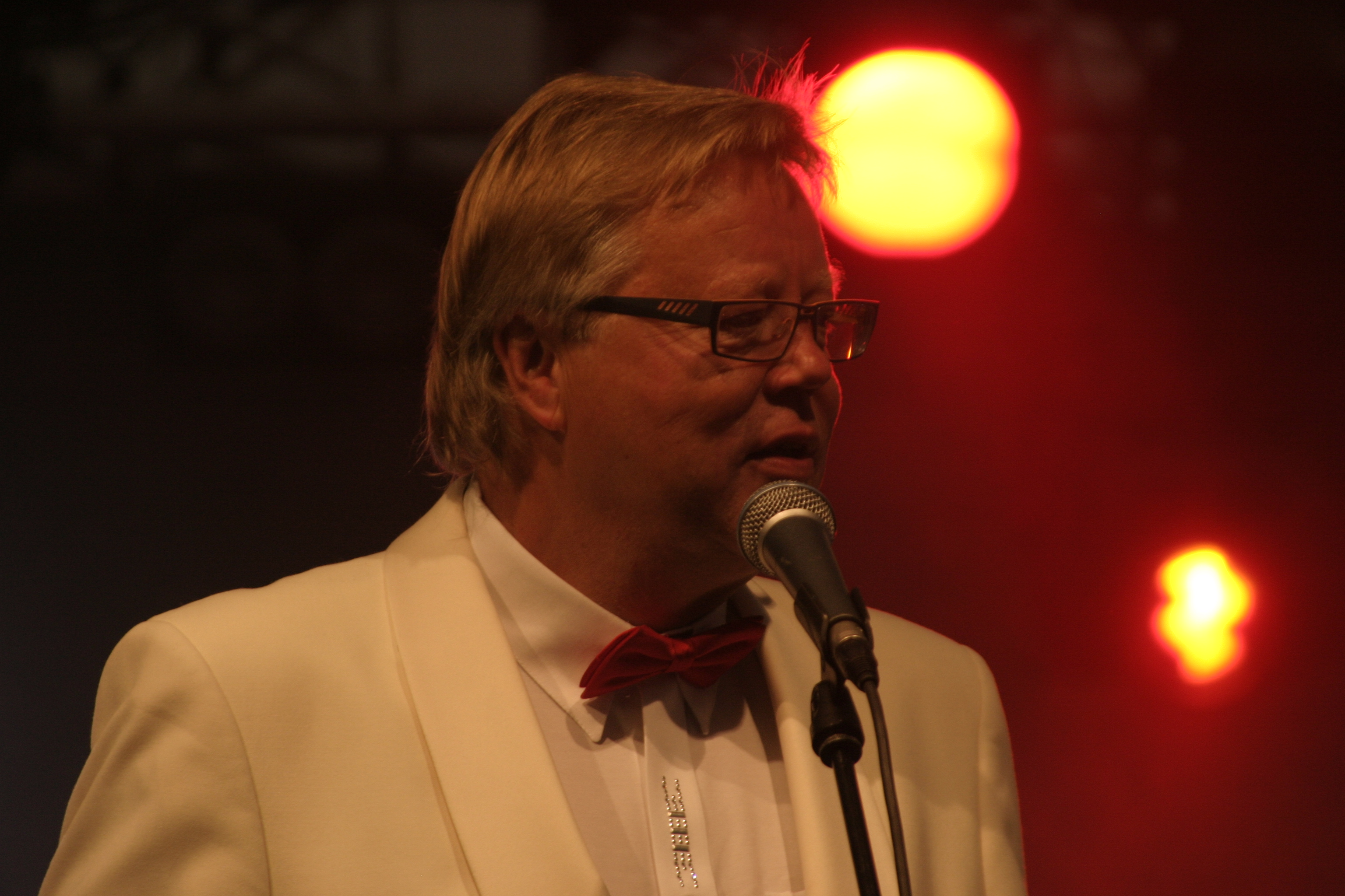 Esa Nieminen